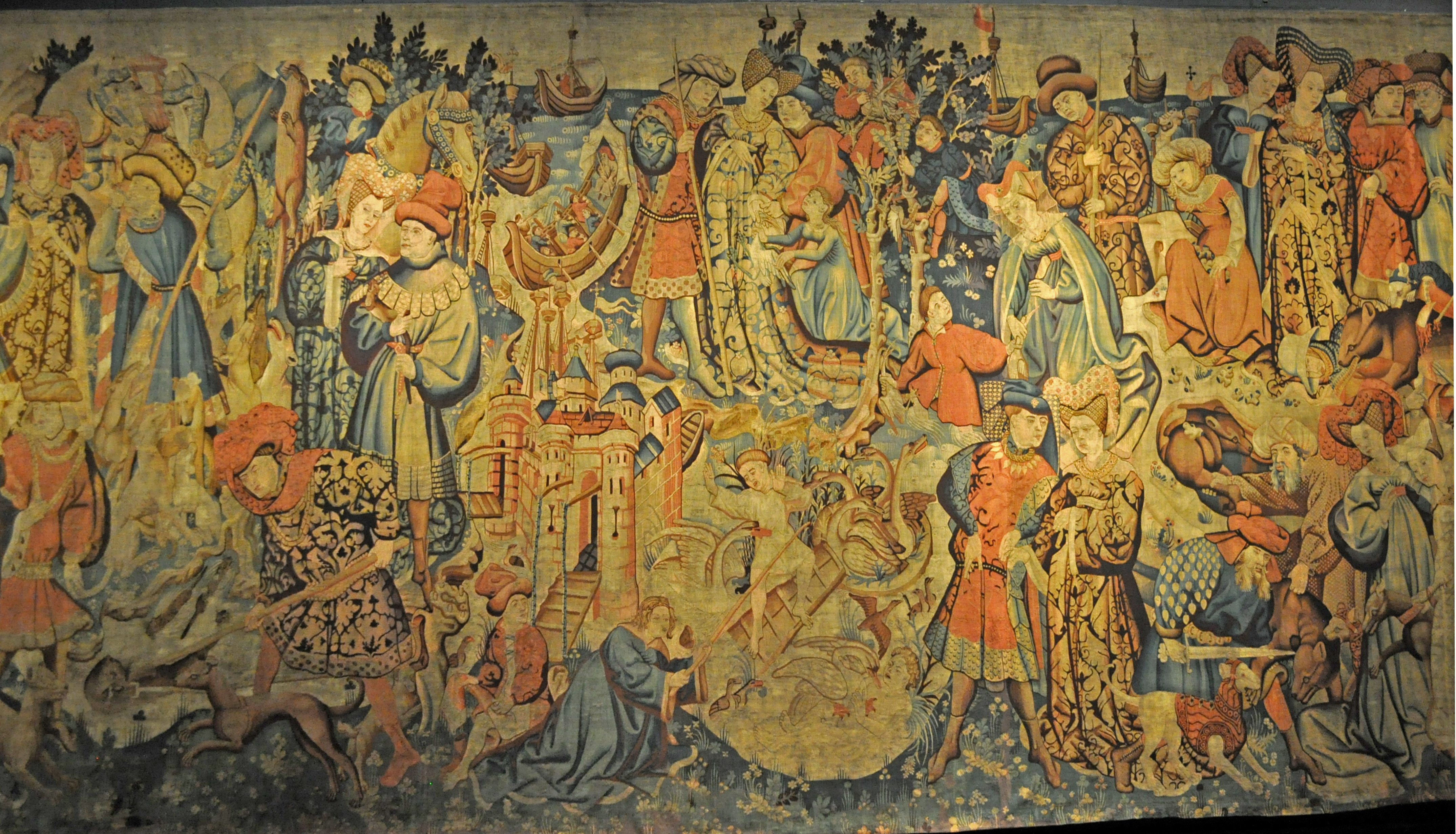 Otter and Swan Hunt, The Devonshire Hunting Tapestries